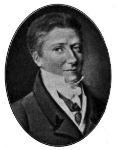 Johan Peter Törner